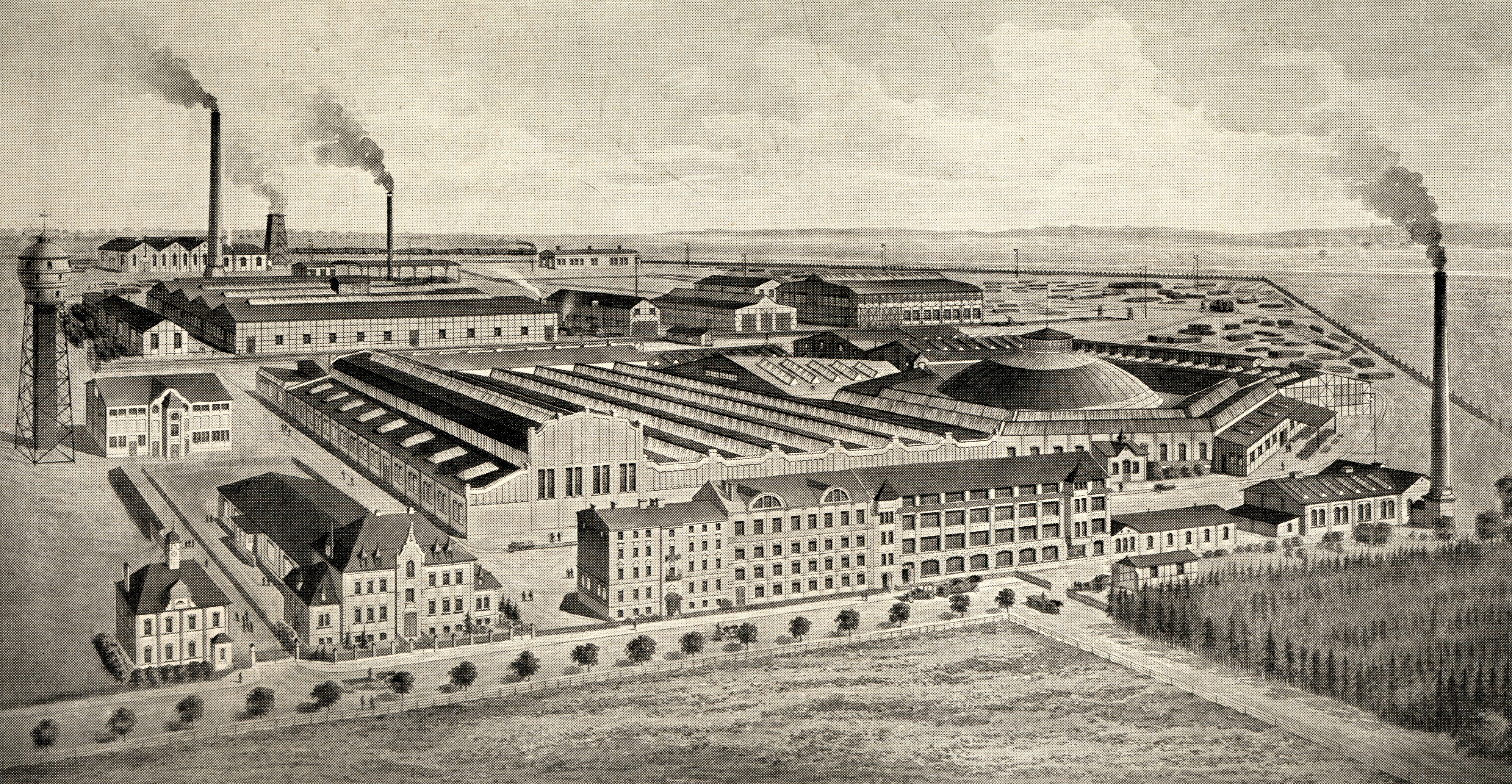 Drewitz factory of Orenstein & Koppel company at Neuendorf near Potsdam (today: Potsdam-Babelsberg), Germany. Drawing published in 1913.